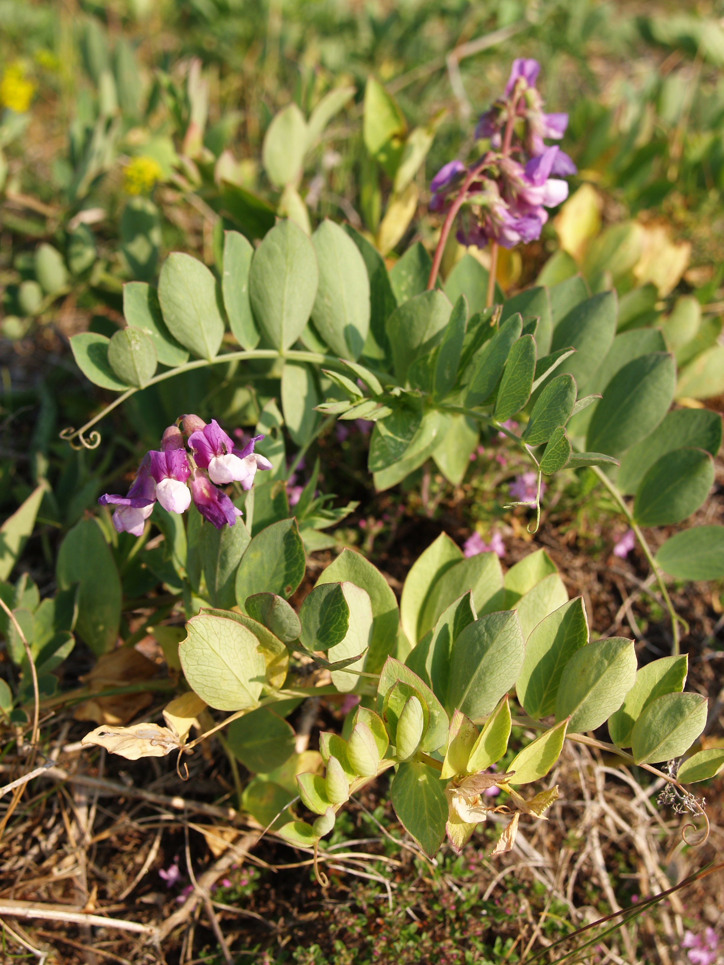 Lathyrus japonicus in Pärispea, Pärispea Peninsula, Estonia.